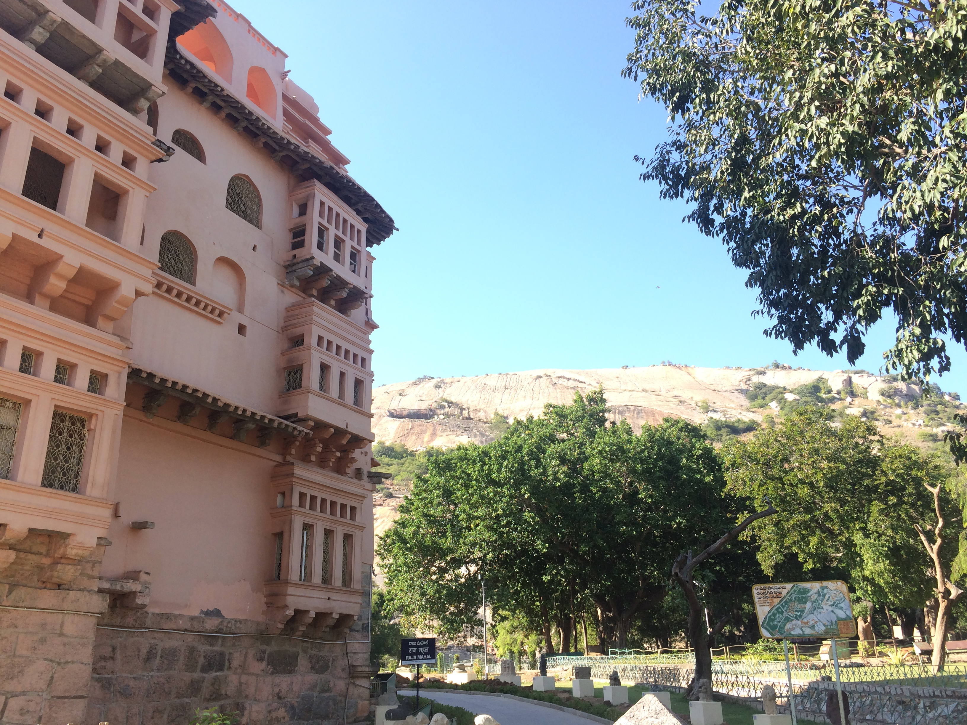 Raja Mahal Palace of Vijayanagara Kings at Chandragiri Fort in Andhra Pradesh with hill fort at the background.